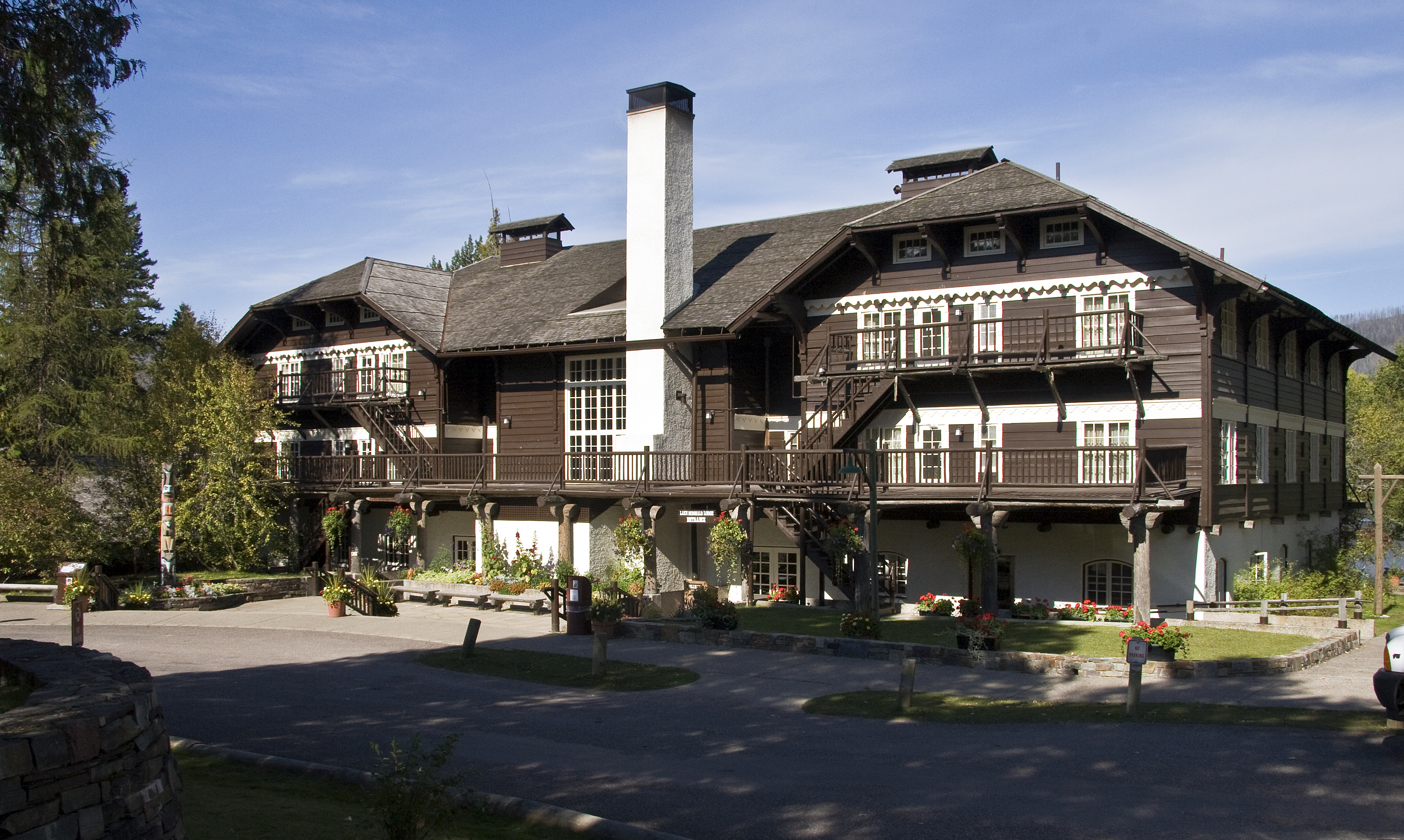 The Lake McDonald Lodge, Glacier National Park, Montana, USA